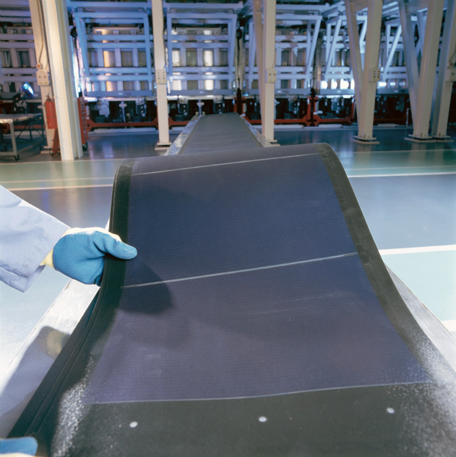 Distributed globally under the UNI-SOLAR© brand, the company's products are ideally suited for cost-effective triple junction solar roofing solutions because they are lightweight, durable, flexible, can be integrated directly with building materials, and generate more energy in real-world conditions.